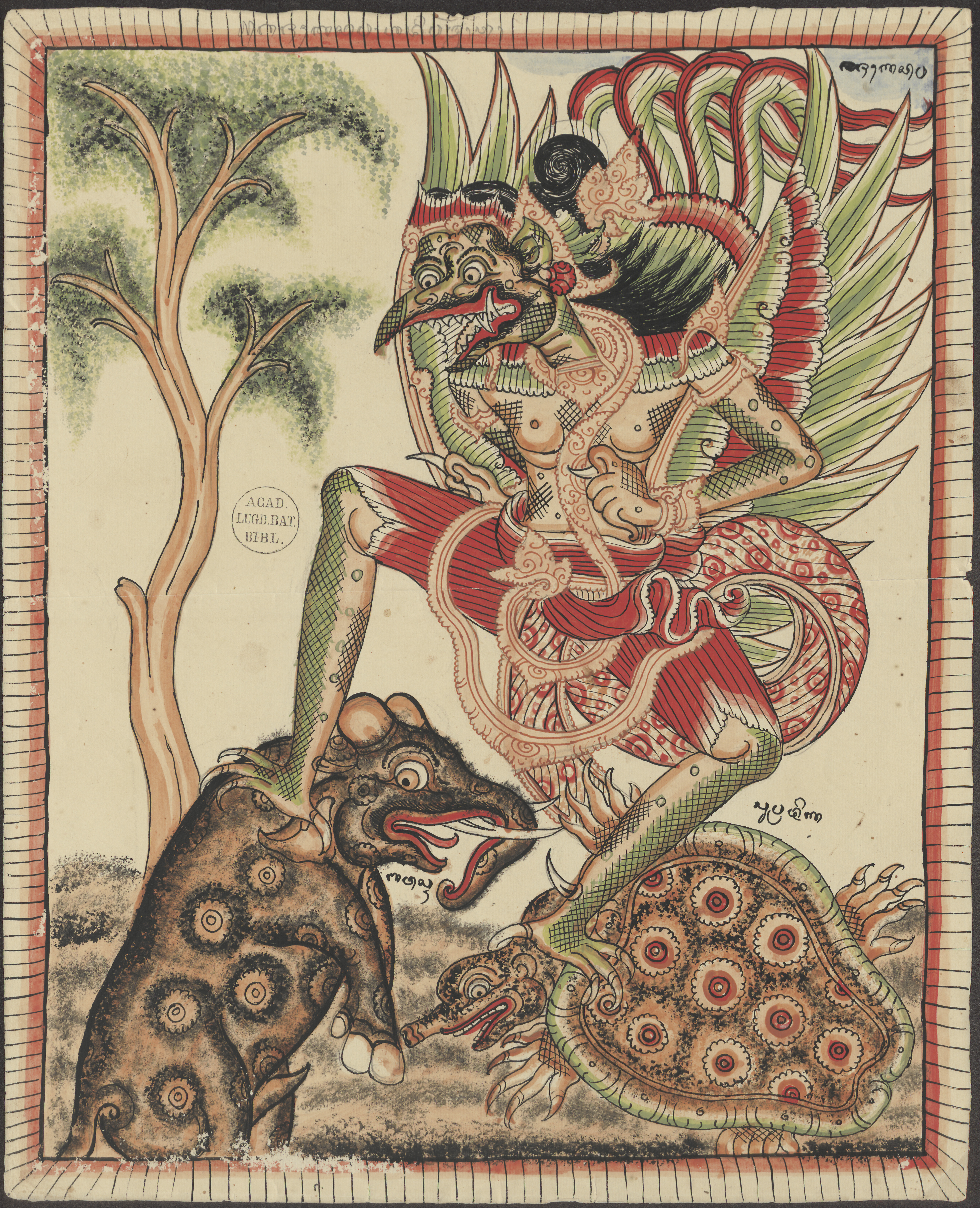 An image which was made in Sanur, Bali